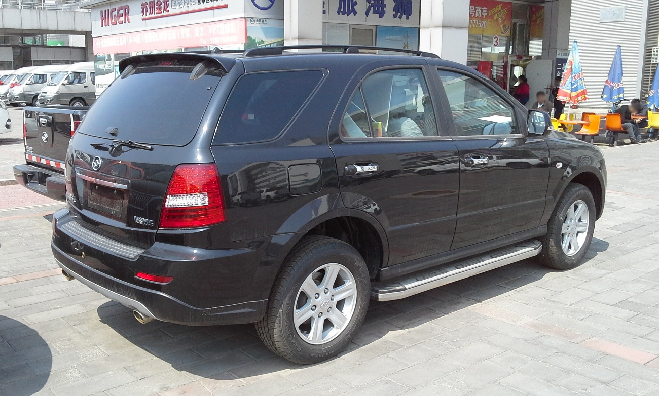 Huanghai Landscape photographed in Beijing, China.